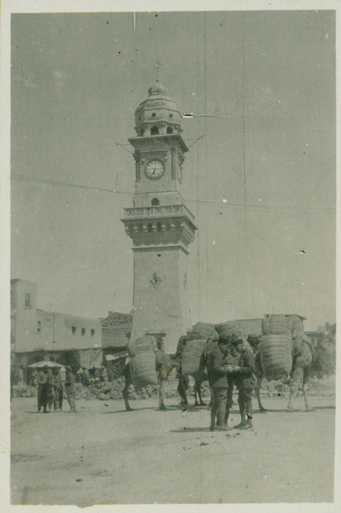 Bab al-Faraj clock tower, Aleppo